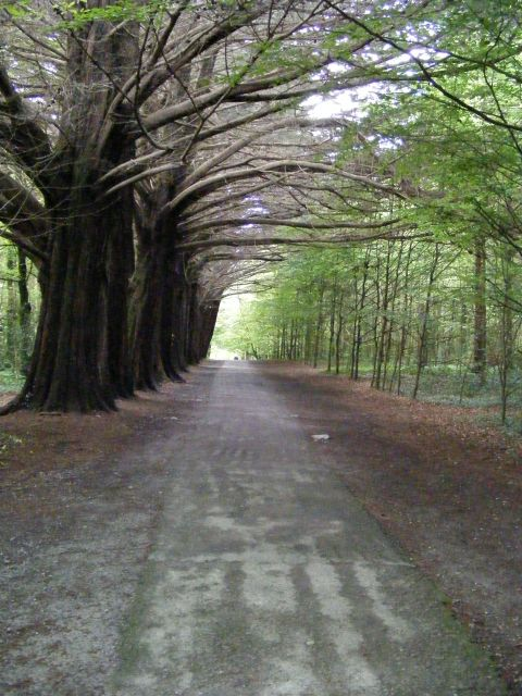 Woodland path - Coole Demesne Townland